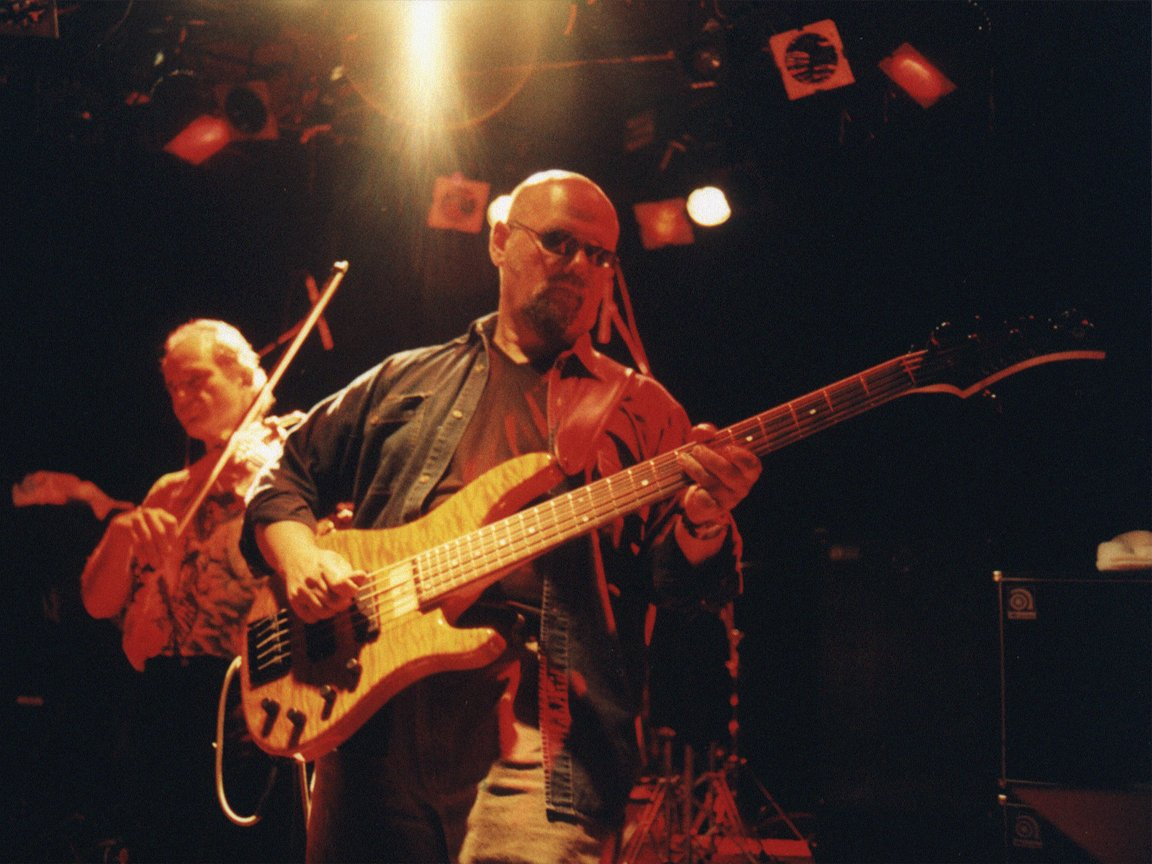 Andy West and Allen Sloan, Dixie Dregs @ The Roxy, Hollywood Aug. 28, 1999